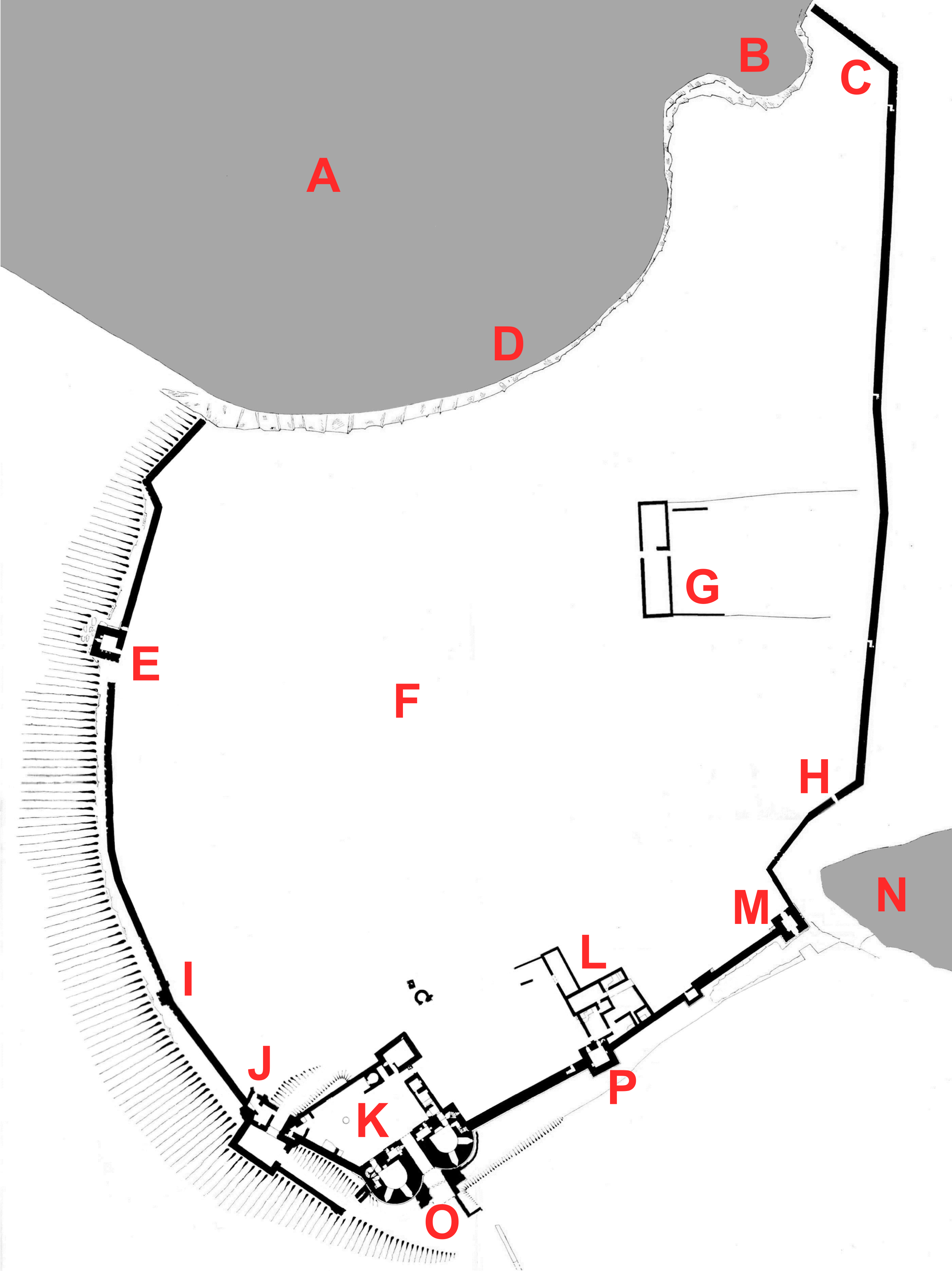 cMap of Dunstanburgh Castle